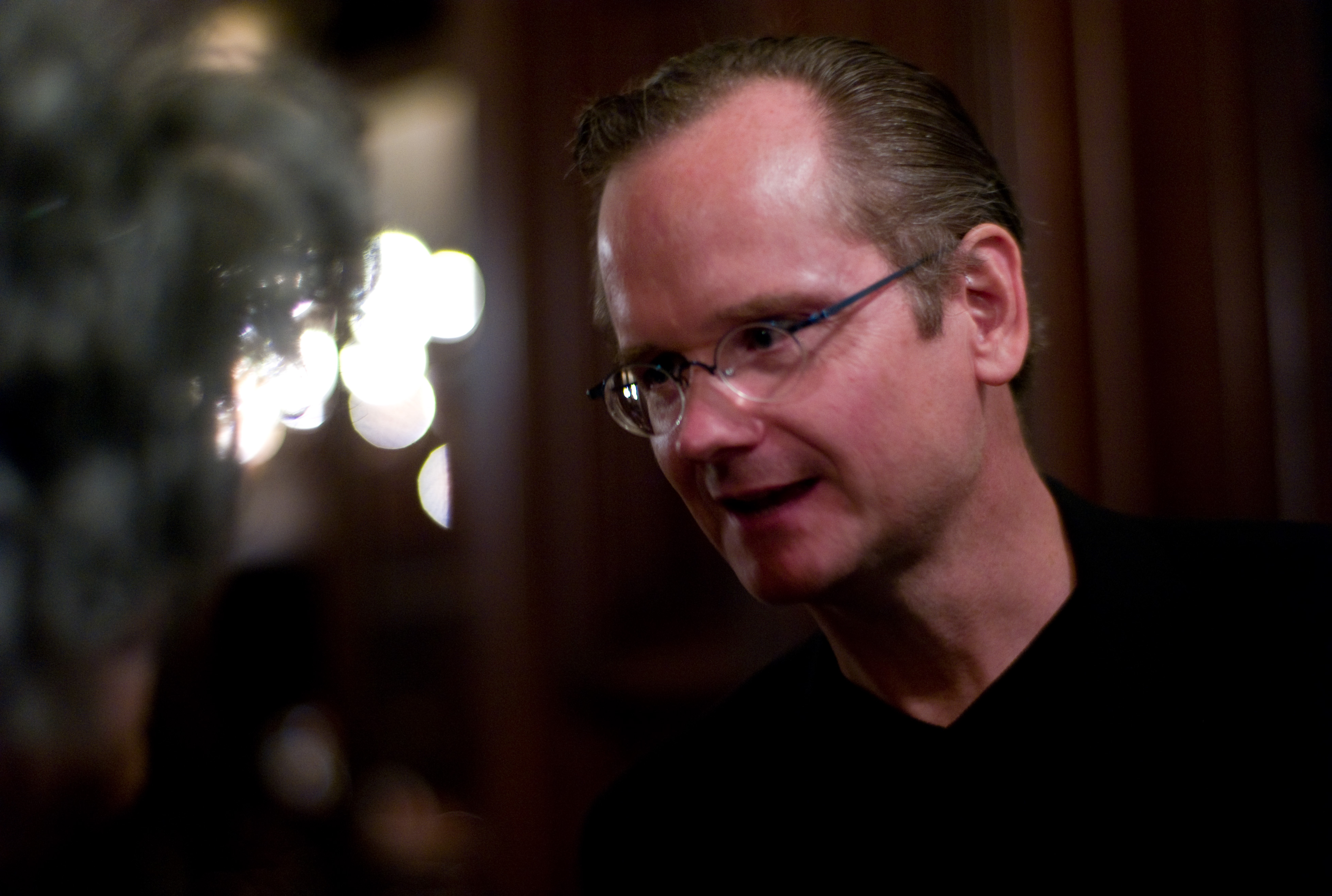 Lawrence Lessig